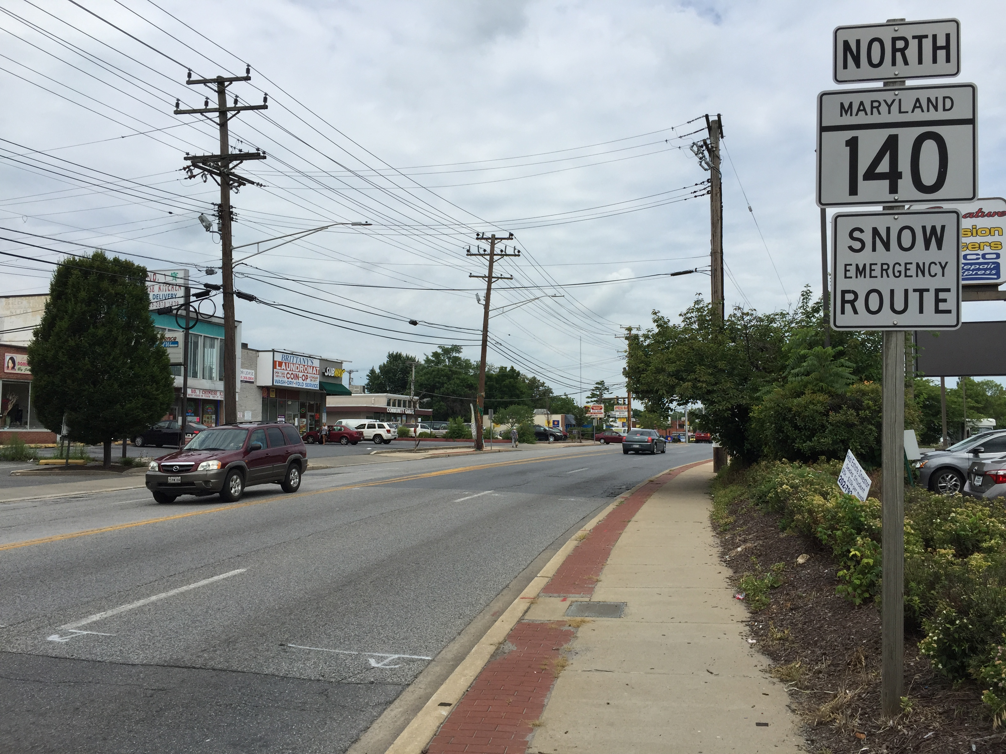 View north along Maryland State Route 140 (Reisterstown Road) at Seven Mile Lane in Pikesville, Baltimore County, Maryland